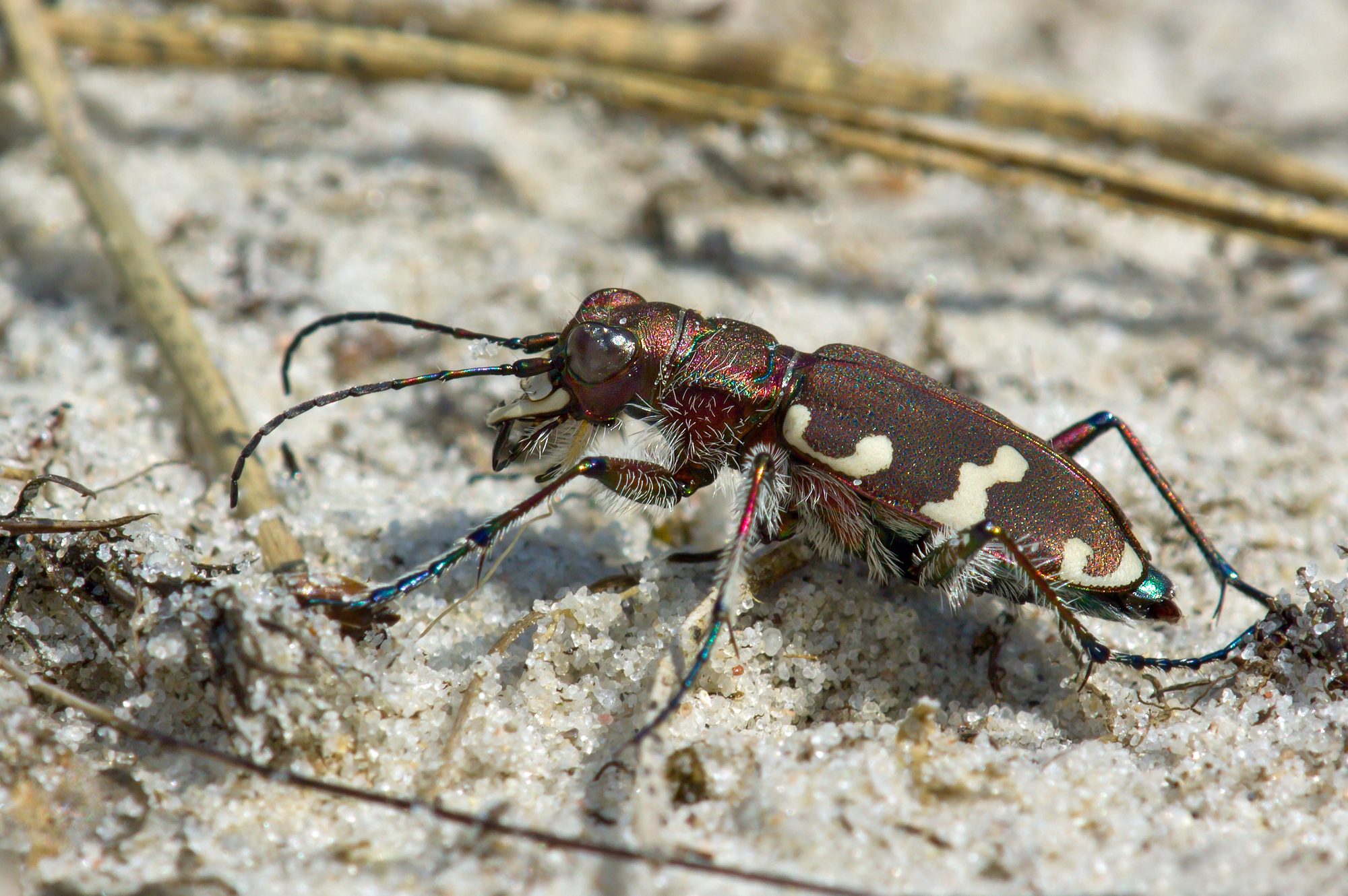 The Northern dune tiger beetle, Cicindela hybrida, watched in a gravel pit.